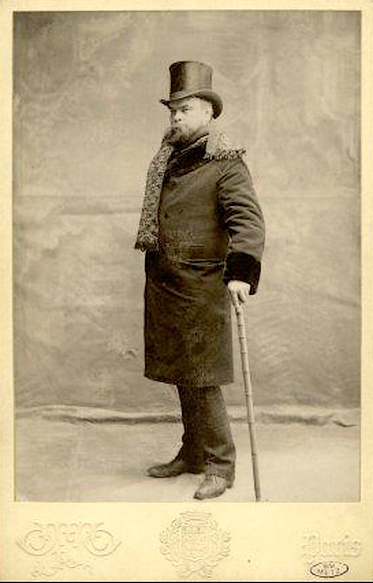 Photo de Paul Verlaine (1893) par Otto Wegener (1849-1924), format type Cabinet (carton 10,5 x 16,5 cm.).